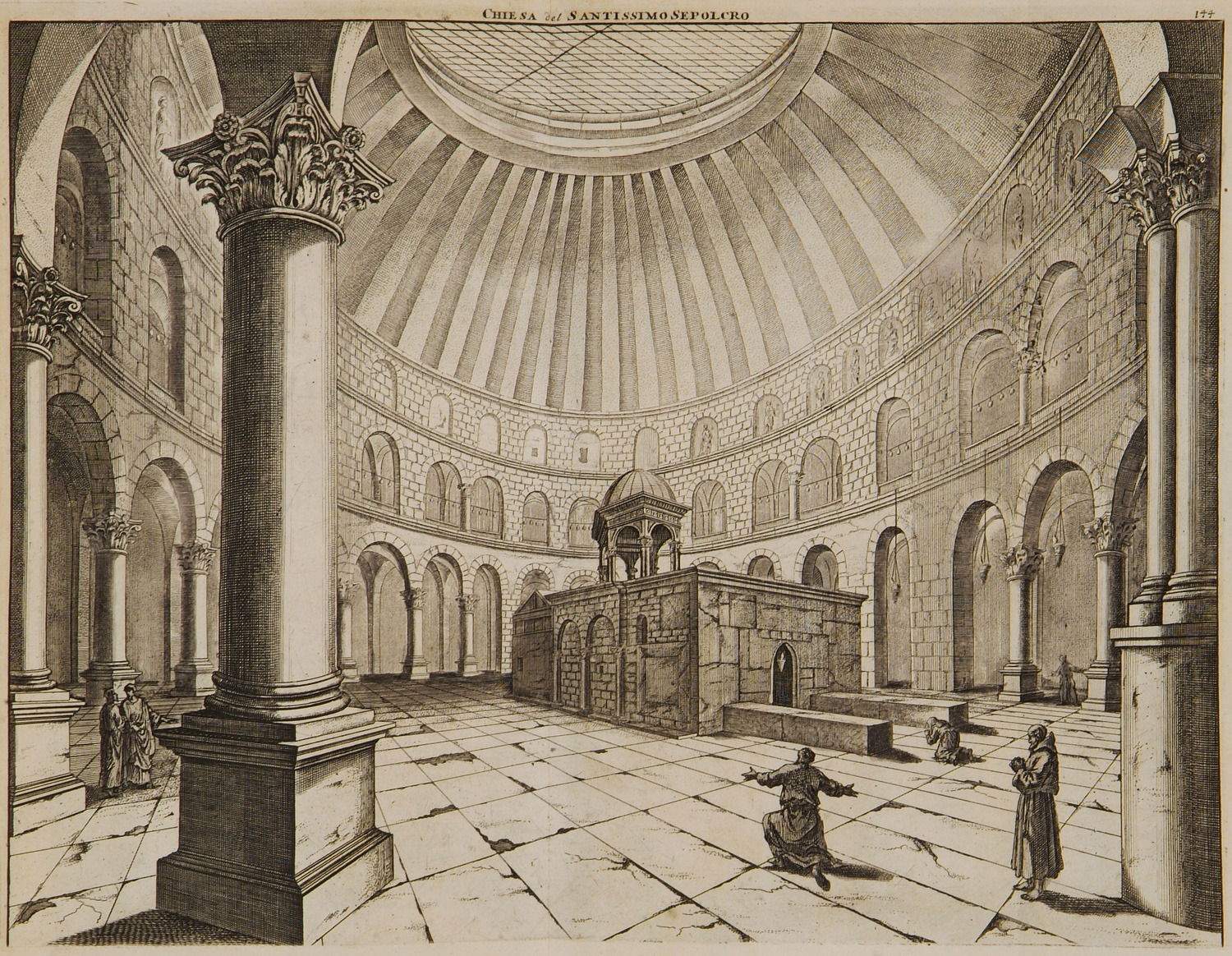 Cornelis deBruyn. Voyage au Levant, c’est-à-dire, dans les principaux endroits de l’Asie Mineure, dans les isles de Chio, Rhodes, et Chypre etc., Paris, Guillaume Cavelier, 1714.